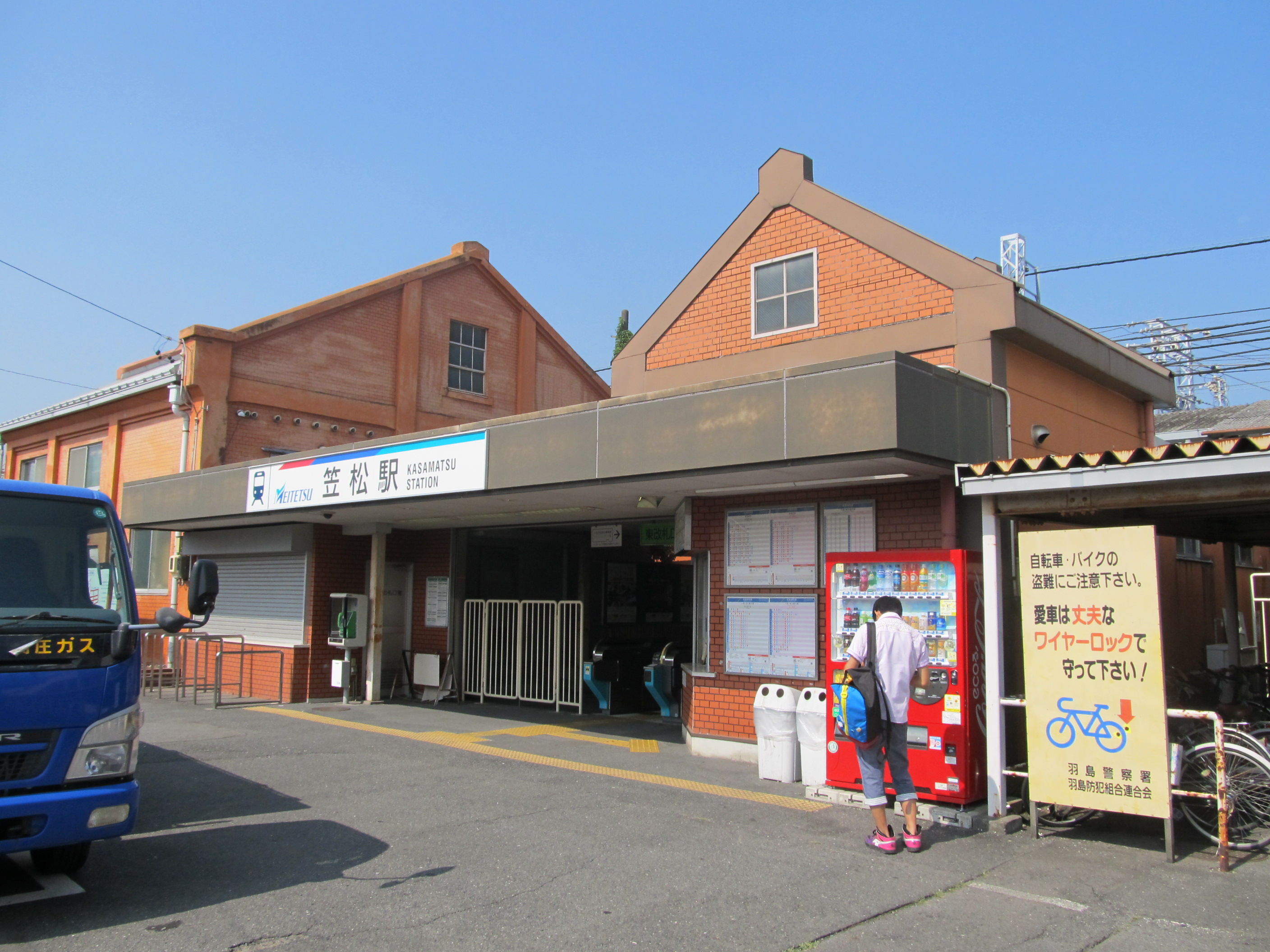 Nagoya Railroad Nagoya Main Line and Takehana Line Kasamatsu Station East Gate.